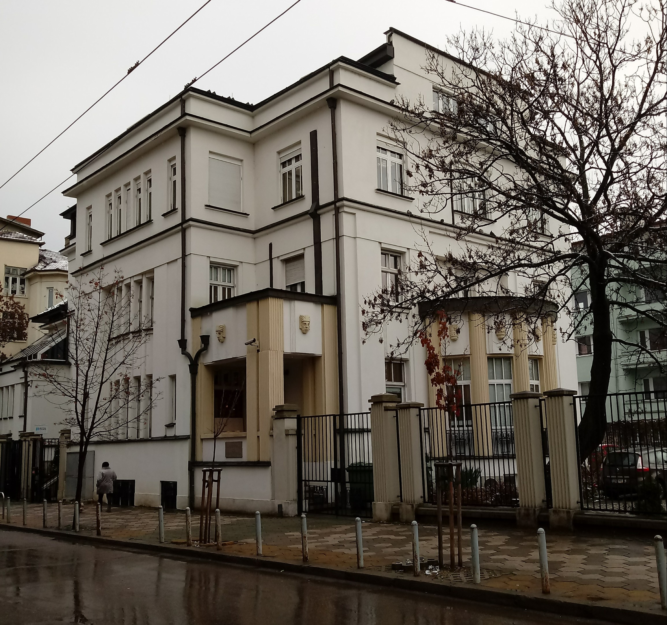 Yovka and Doncho Palaveevi home with memorial plaque, 7 Krakra Str. Sofia